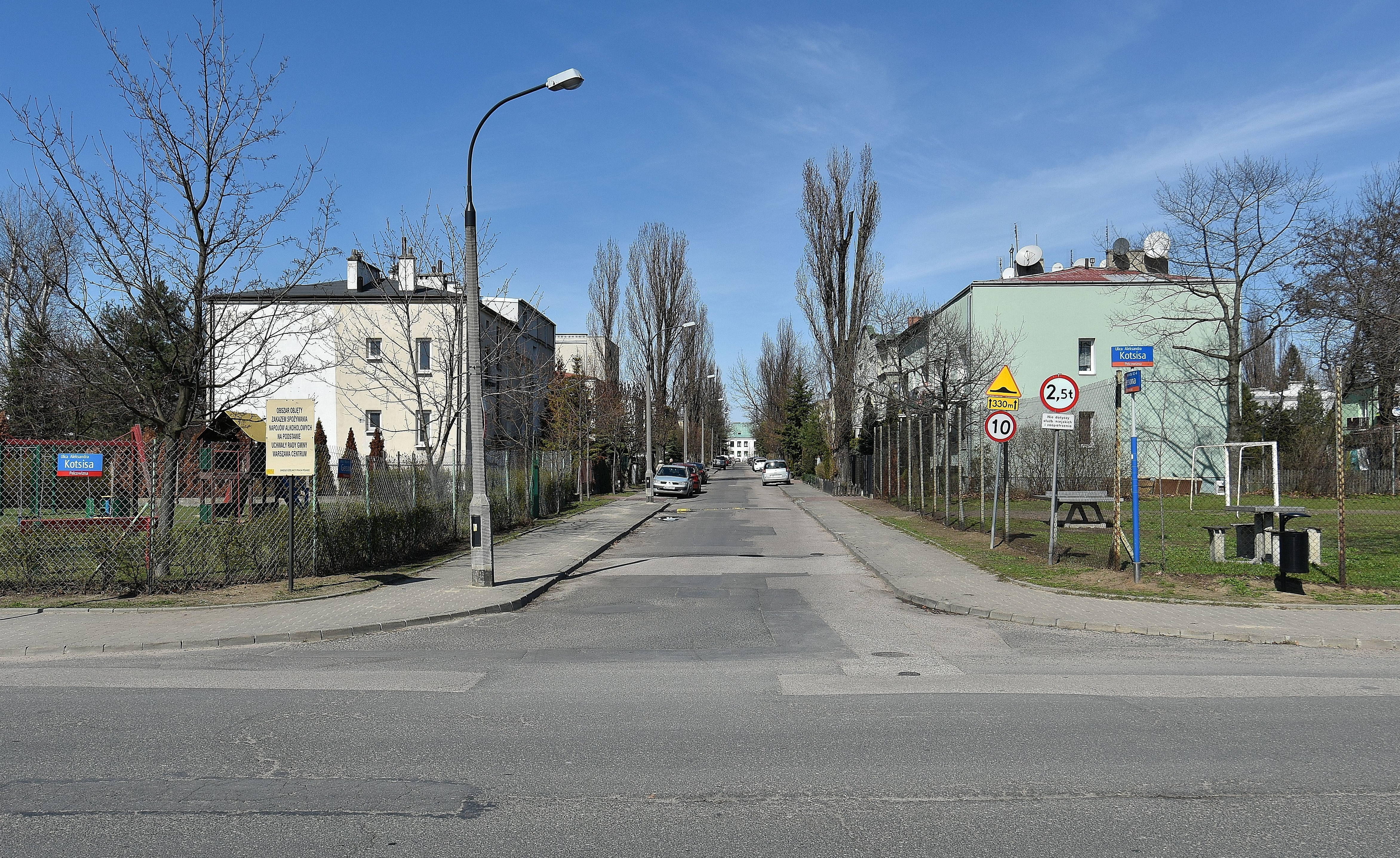 Wojciech Gerson Street in Warsaw